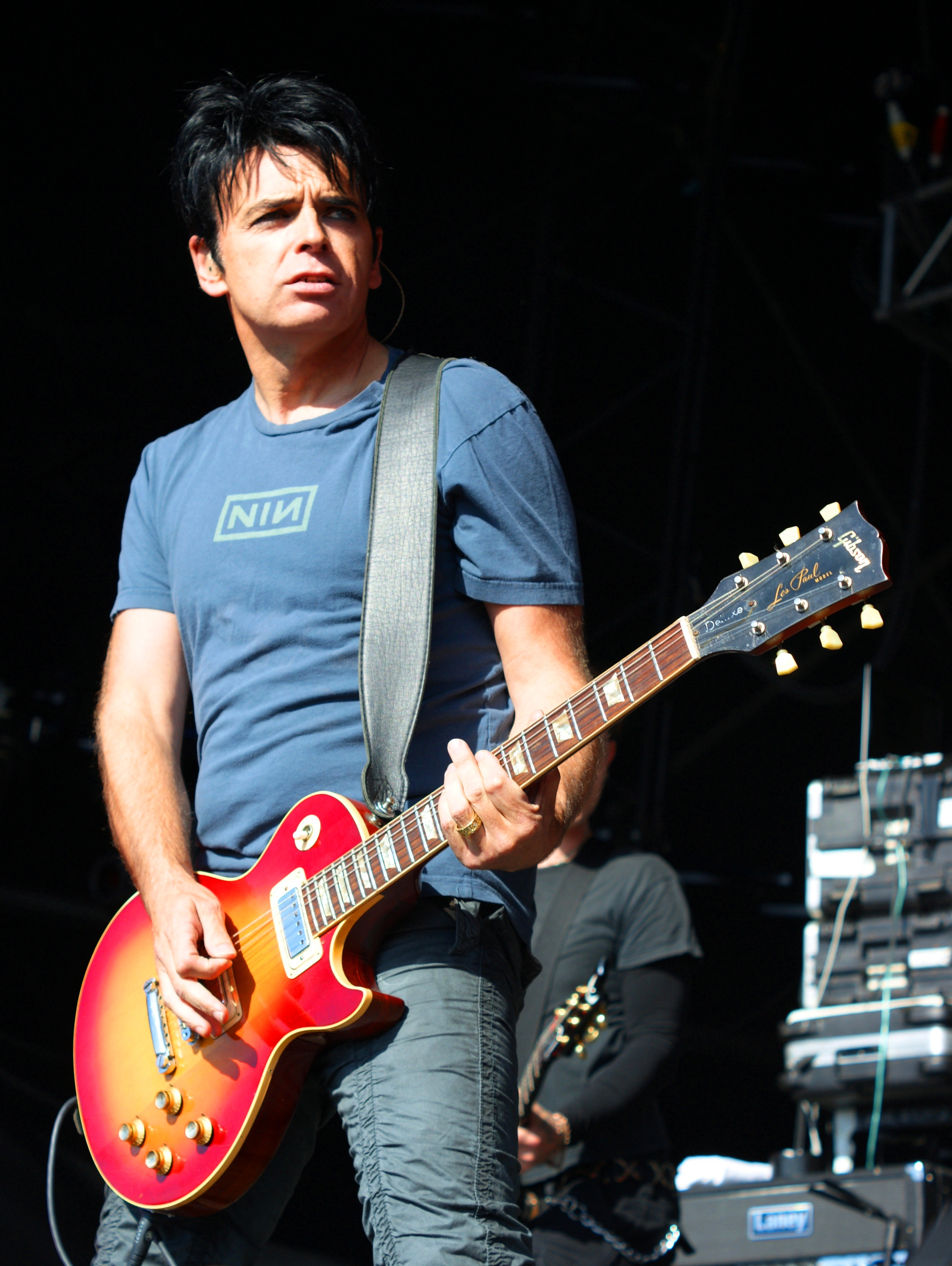 Gary Numan performing at Ben and Jerry's Double Scoop Sundae festival, Heaton Park, Manchester, on July 23, 2011.